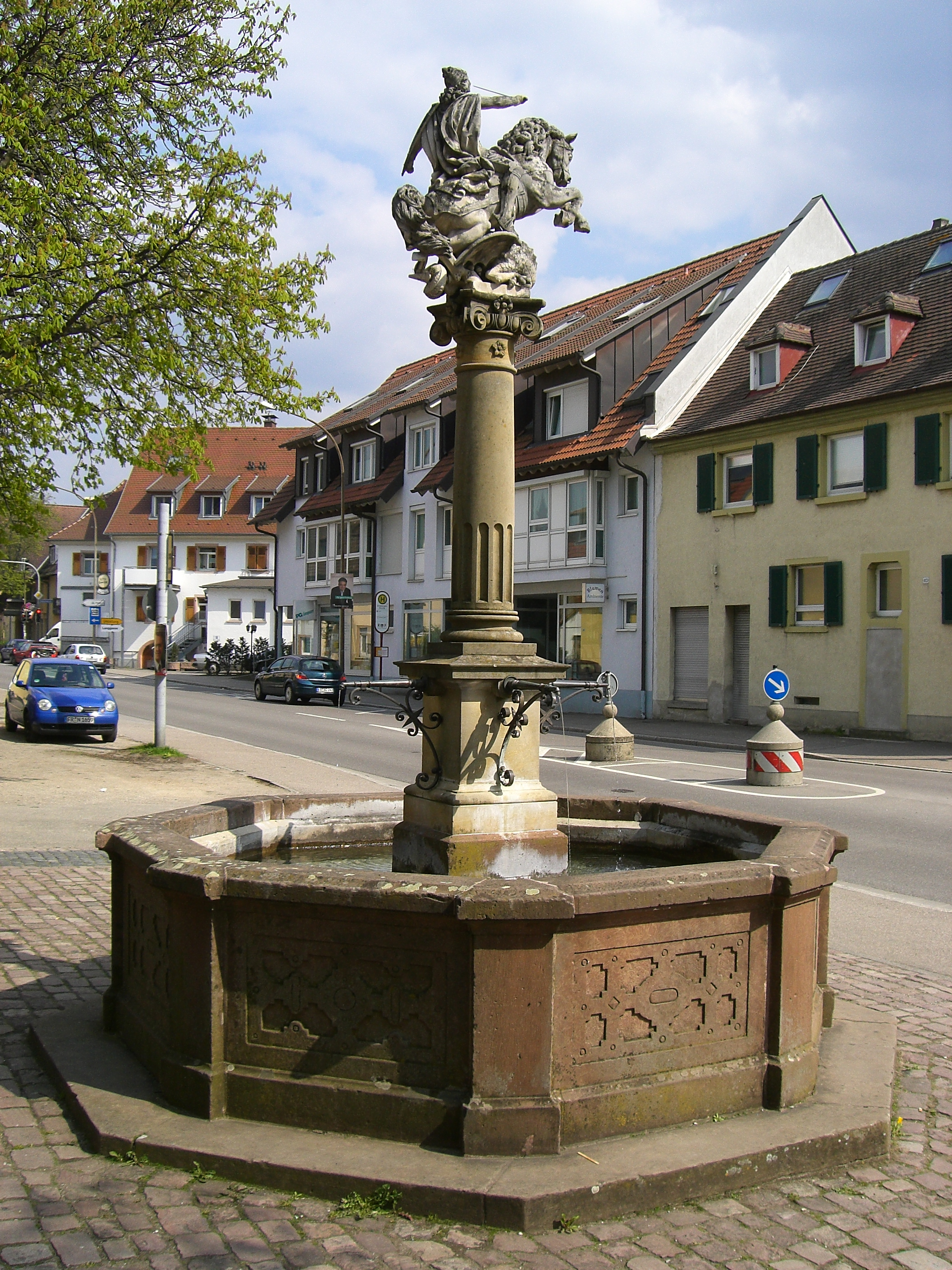 Statue and fontain St-Georgen, Freiburg Breisgau by Julius Seitz 1895